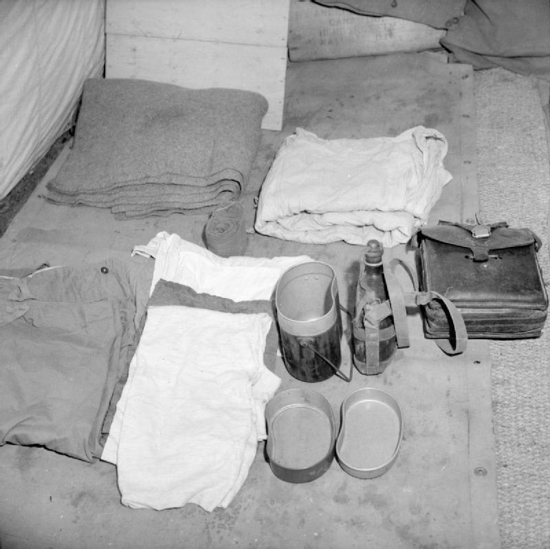 The British Reoccupation of Burma Personal kit allowed to be taken on board ship by Japanese prisoners of war during Operation Nipoff, the scheme devised to repatriate 35,000 prisoners to Japan. The operation was directed by Headquarters Burma Command but administered by the Japanese themselves throughy their former Burma Area Army Headquarters staff.